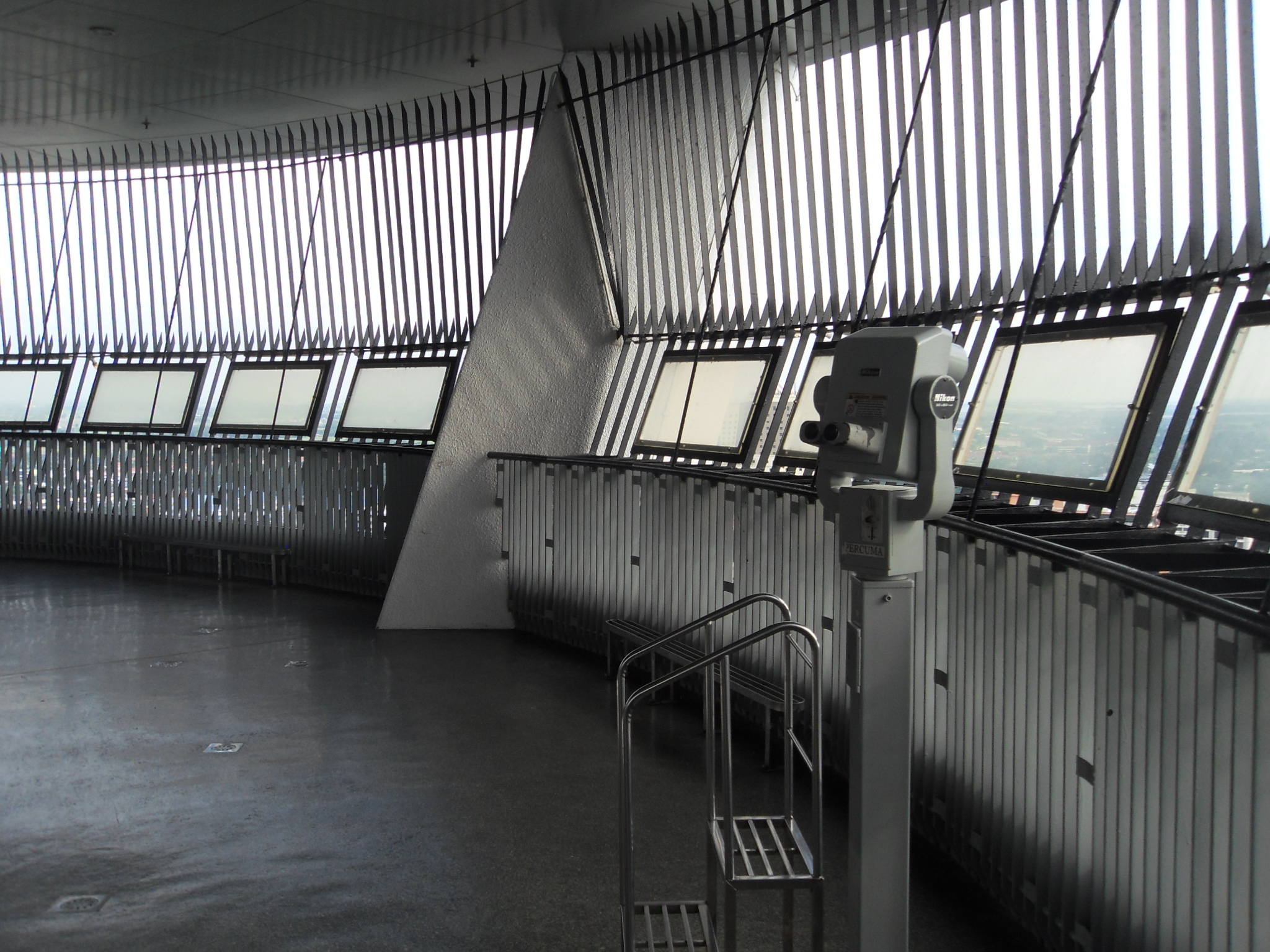 Observation Deck, Alor Setar Tower, Alor Setar, Kedah, Malaysia